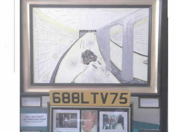 This is the only known painting showing the momment of impact in the Pont de la Alma underpass Paris in 1997 the moment Princess Diana and dodi died after collision with the thirteenth pillar, the royal Mercedes faces the way it entered the tunnel